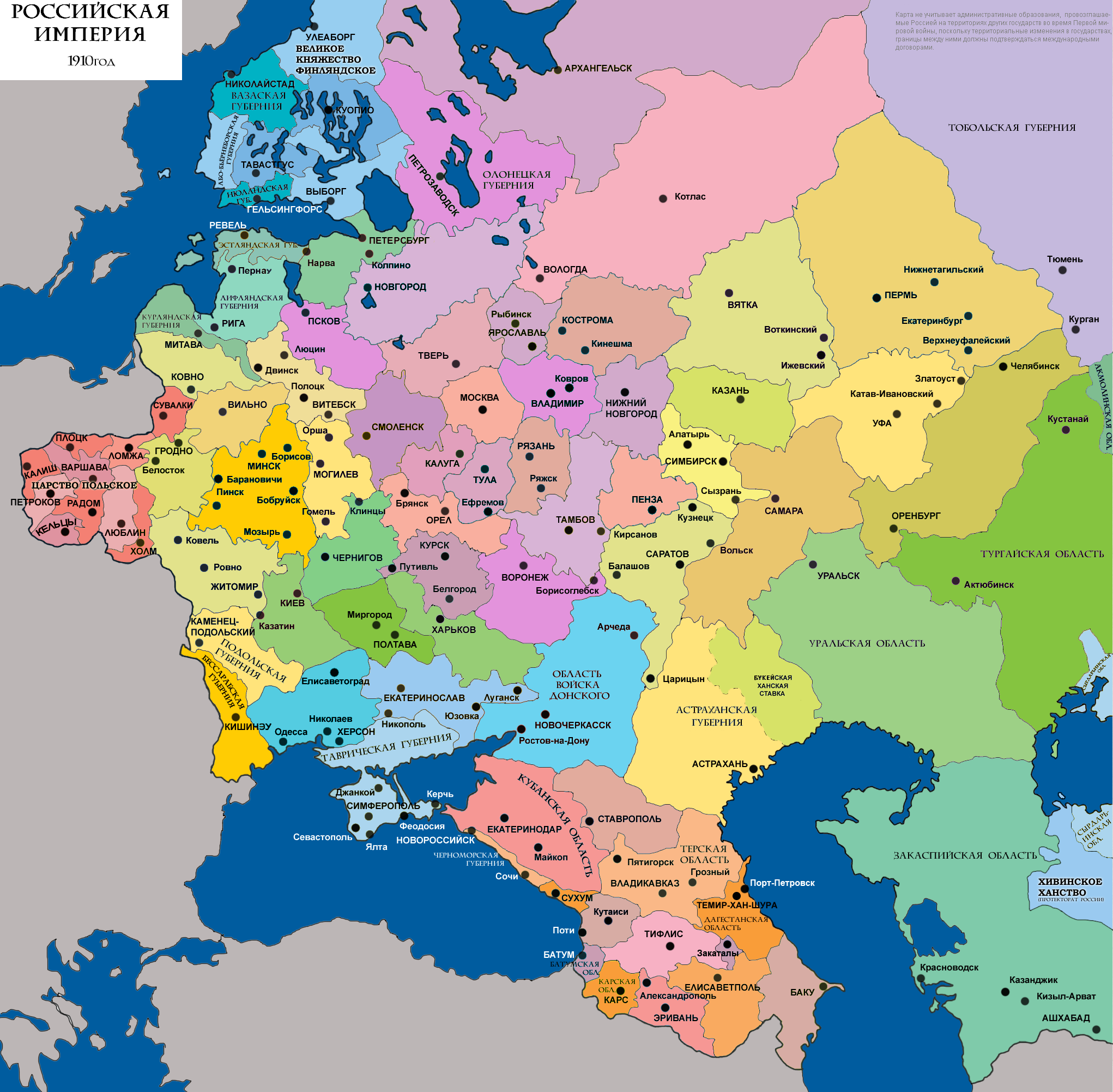 Gubernias of the European Russia 1910, according with H. Kehnert et H. Habenicht's map n° 43 Russland und Skandinavien, in the Stielers Hand-Atlas, Justus Perthes, Gotha, issue 1910, 440 pp., derivative work since Nikolay Sidorov's map Административное деление России (западная часть) в 1917, showing by colours the regions of Great-Russia, Little-Russia, New-Russia, Western-Russia, Eastern-Russia, Baltic Provinces, Gr-Duchy of Finland, Kingdpm of Poland, Caucasia, Central-Asia & Siberia.